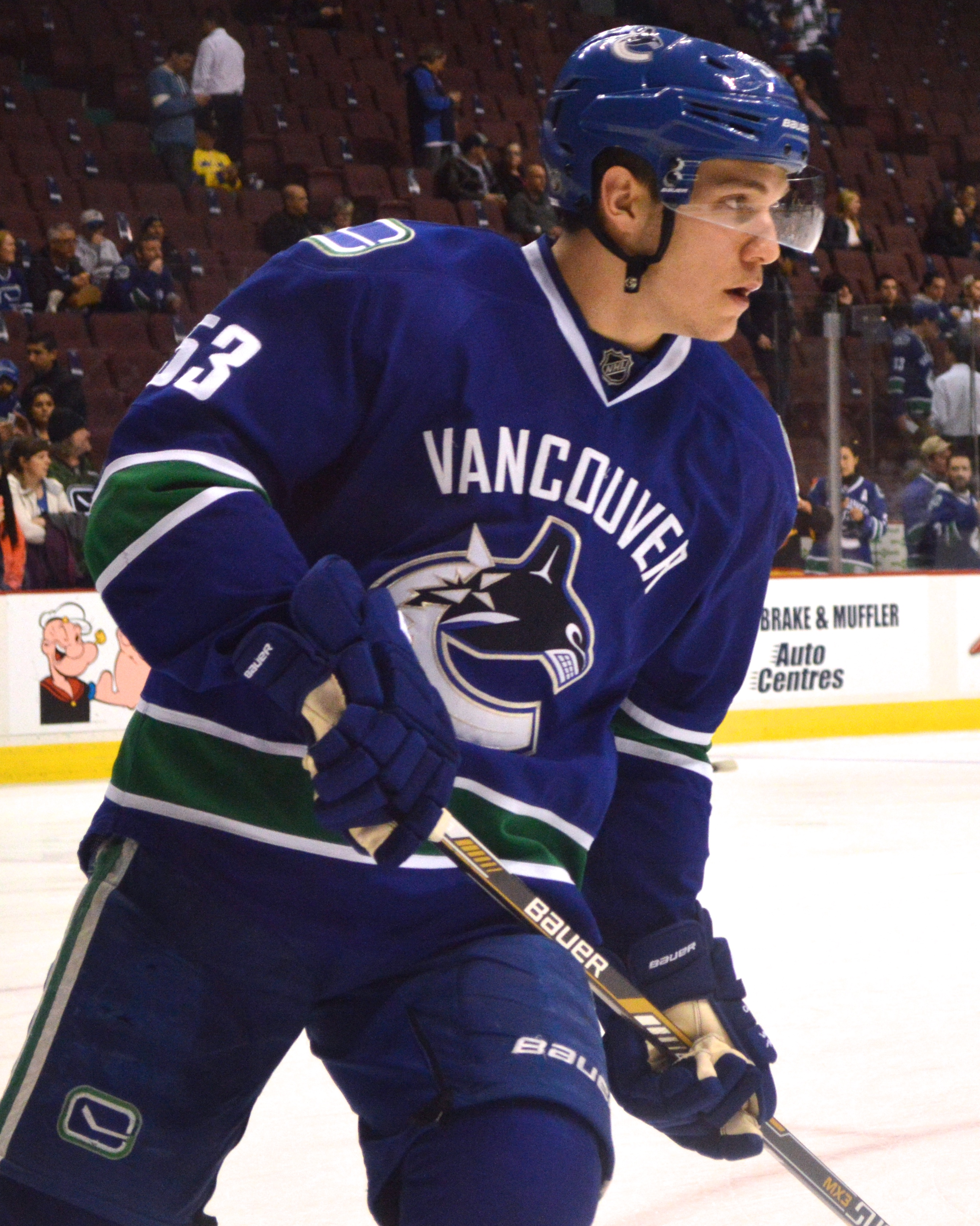 Vancouver Canucks centre Bo Horvat during warm-up prior to a game against the Winnipeg Jets at Rogers Arena on February 3, 2015.